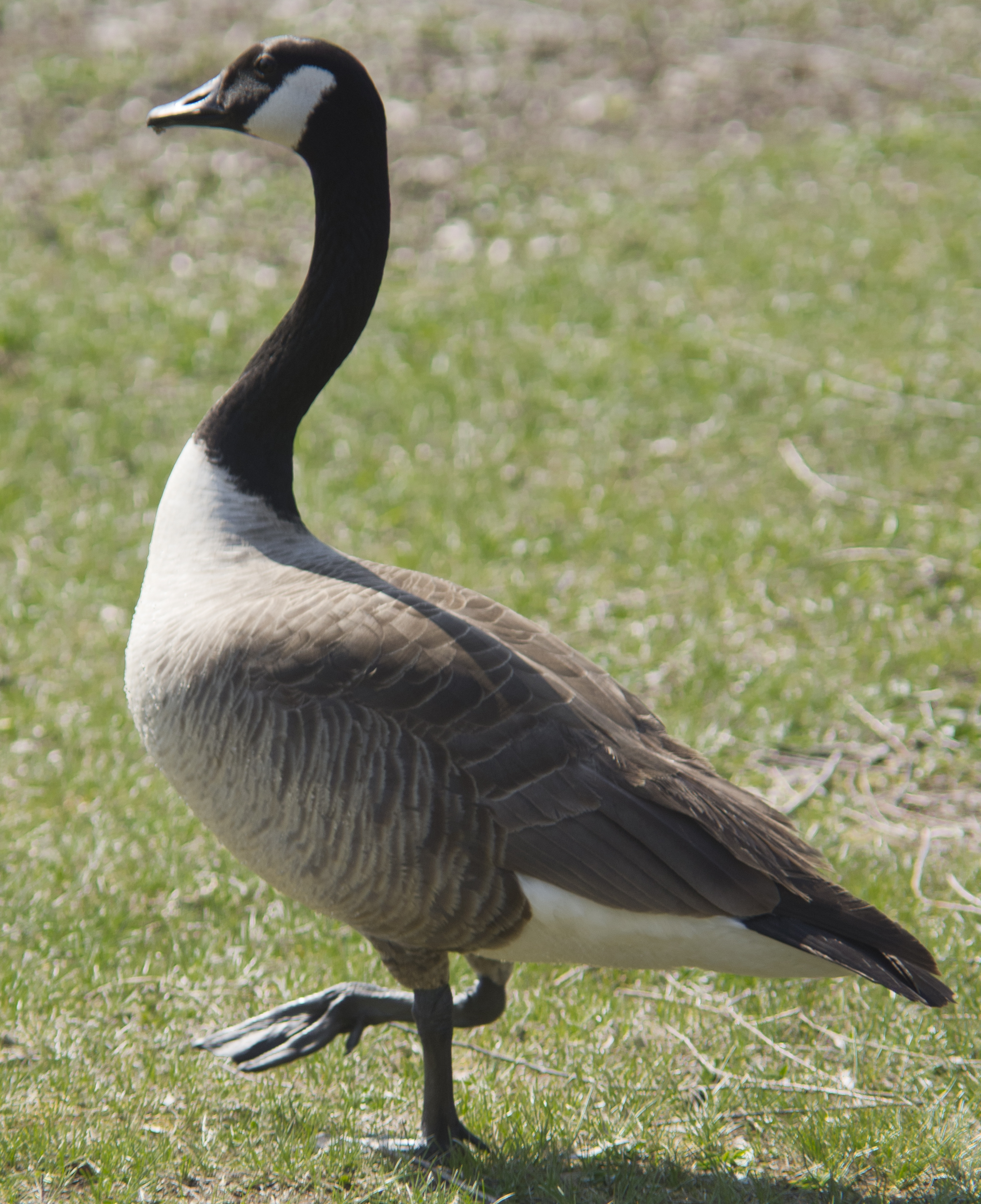 A Canada Goose (Branta canadensis) walks in the grass in Saddle River County Park in Bergen County, NJ.